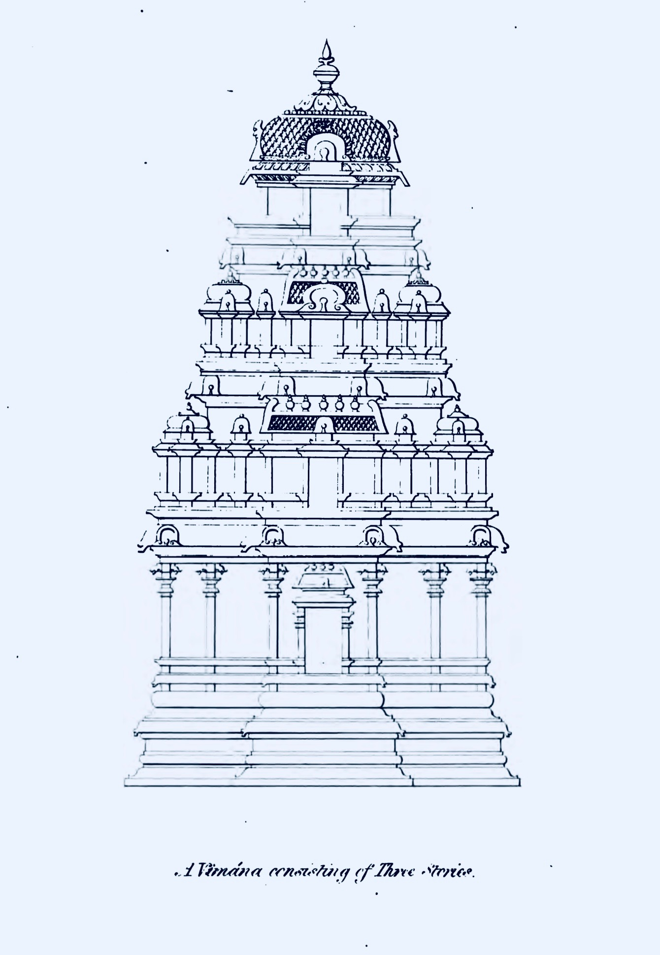 This is a photo of sketches made by Ram Raz and published in 1834. The source images can be found in Ram Raz (1834) Essay on the Architecture of the Hindus, Royal Asiatic Society of Great Britain and Ireland. A scholarly review of this source: Madhuri Desai (2012), Interpreting an Architectural Past Ram Raz and the Treatise in South Asia, Journal of the Society of Architectural Historians, Vol. 71, No. 4, pages 462-487